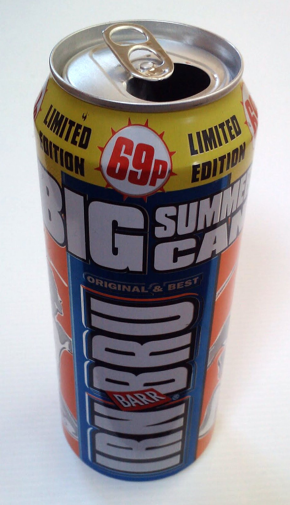 Limited Edition Irn Bru 500ml can.